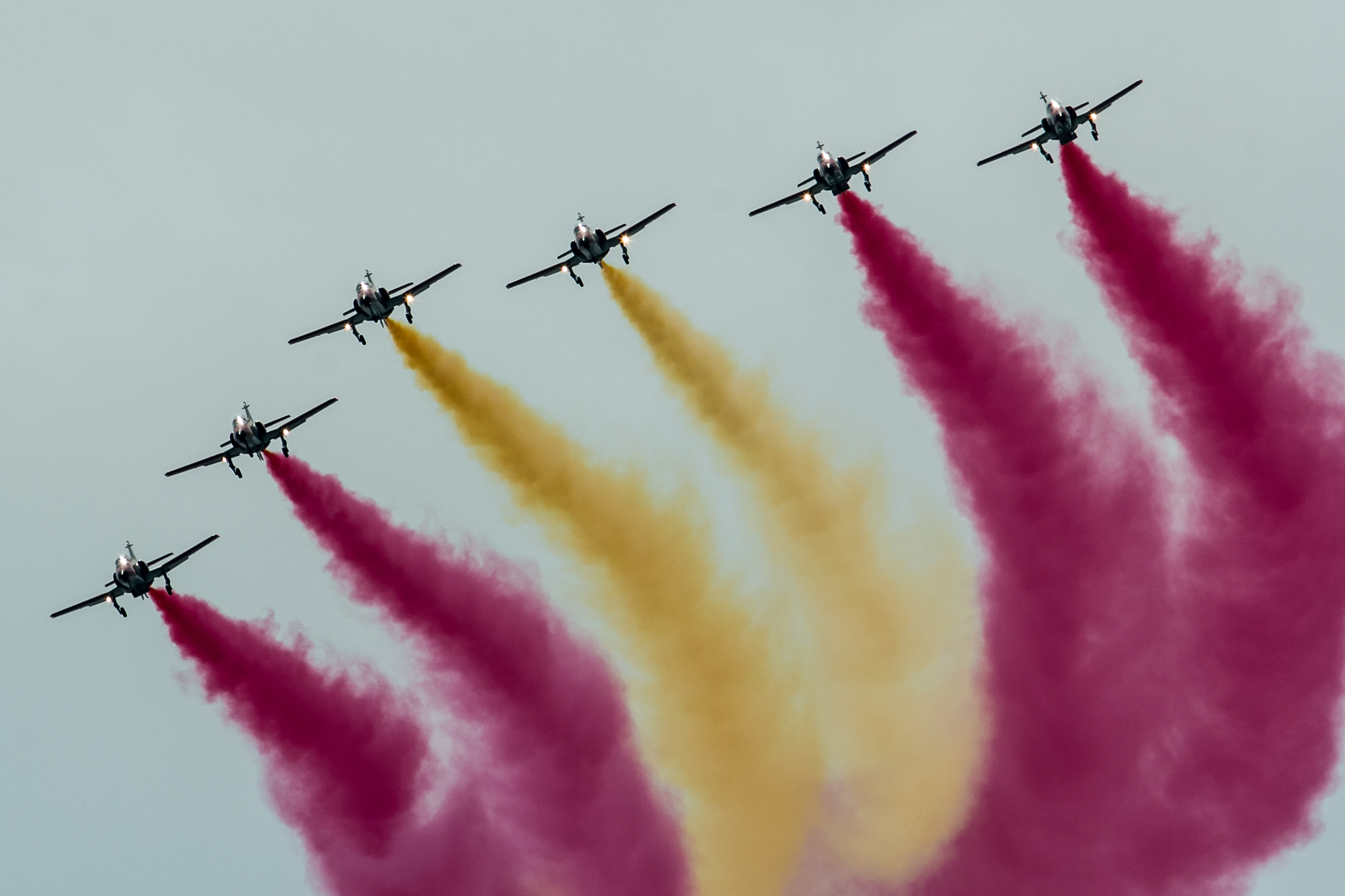 The Patrulla Águila performing at the 2014 Rome International Air Show